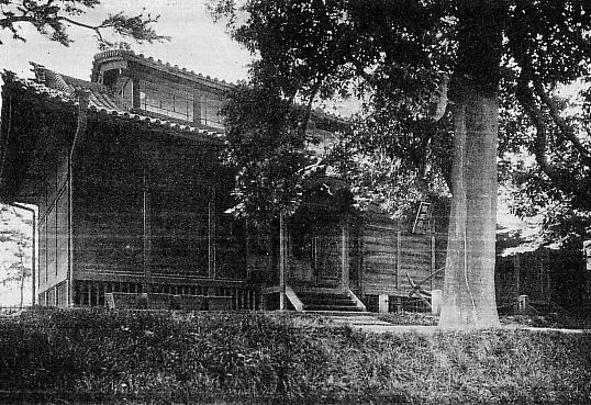 Shintenfu (Hall where various spoils of the First Sino-Japanese War were collected)